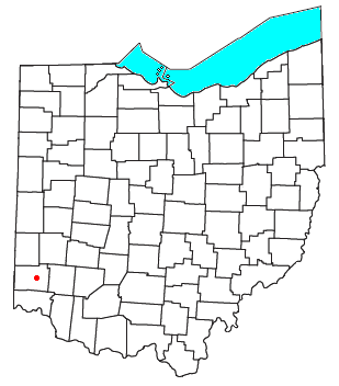 Locator map of the unincorporated community of Overpeck in Butler County, Ohio, United States.